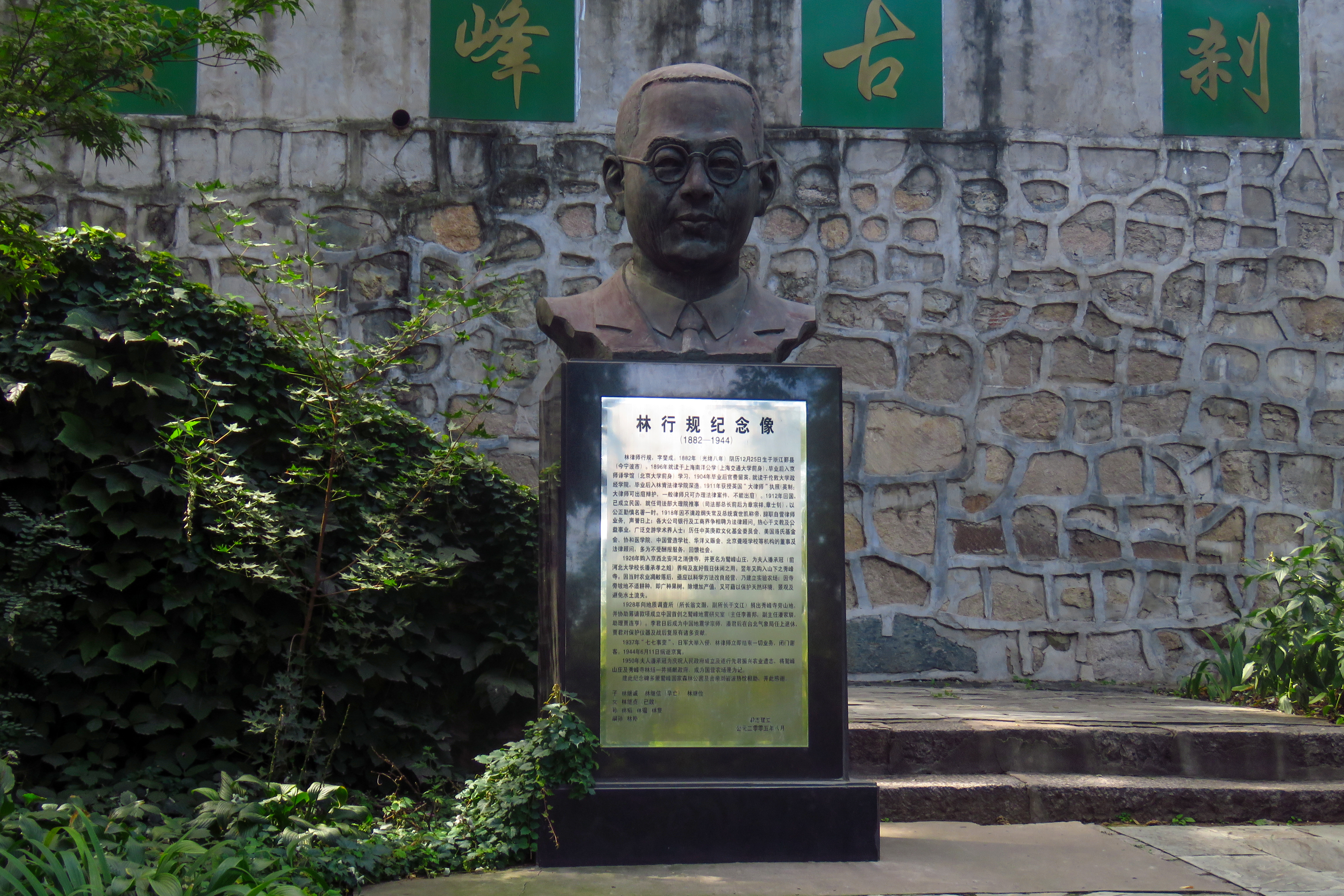 If the pronunciation isn't wrong...